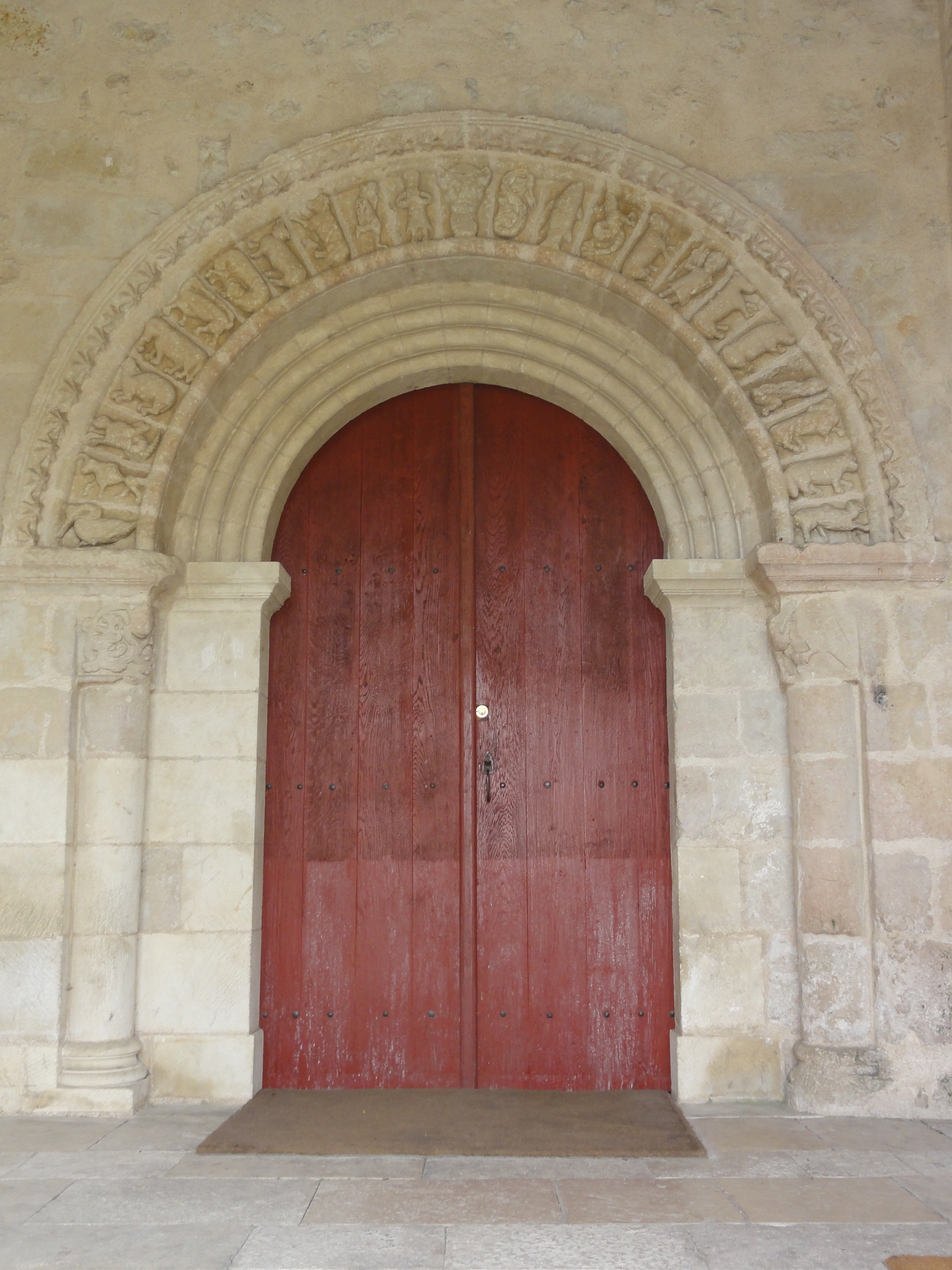 Église Notre Dame et Saint-Junien de Lusignan, Porte du zodiac .